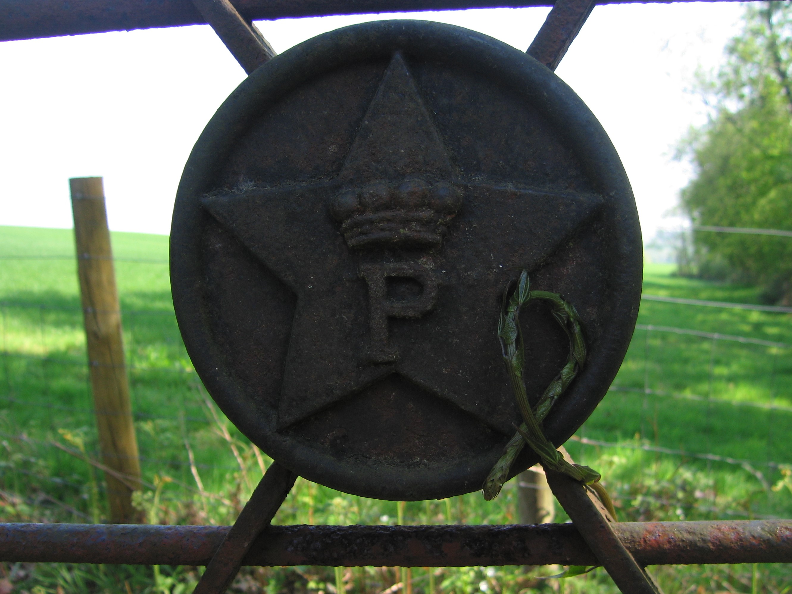 An example of the iron bosses in park gates across the Whitley Park estate, Surrey, showing the Pirrie emblem. This one near Creedhole Farm, The Roundles